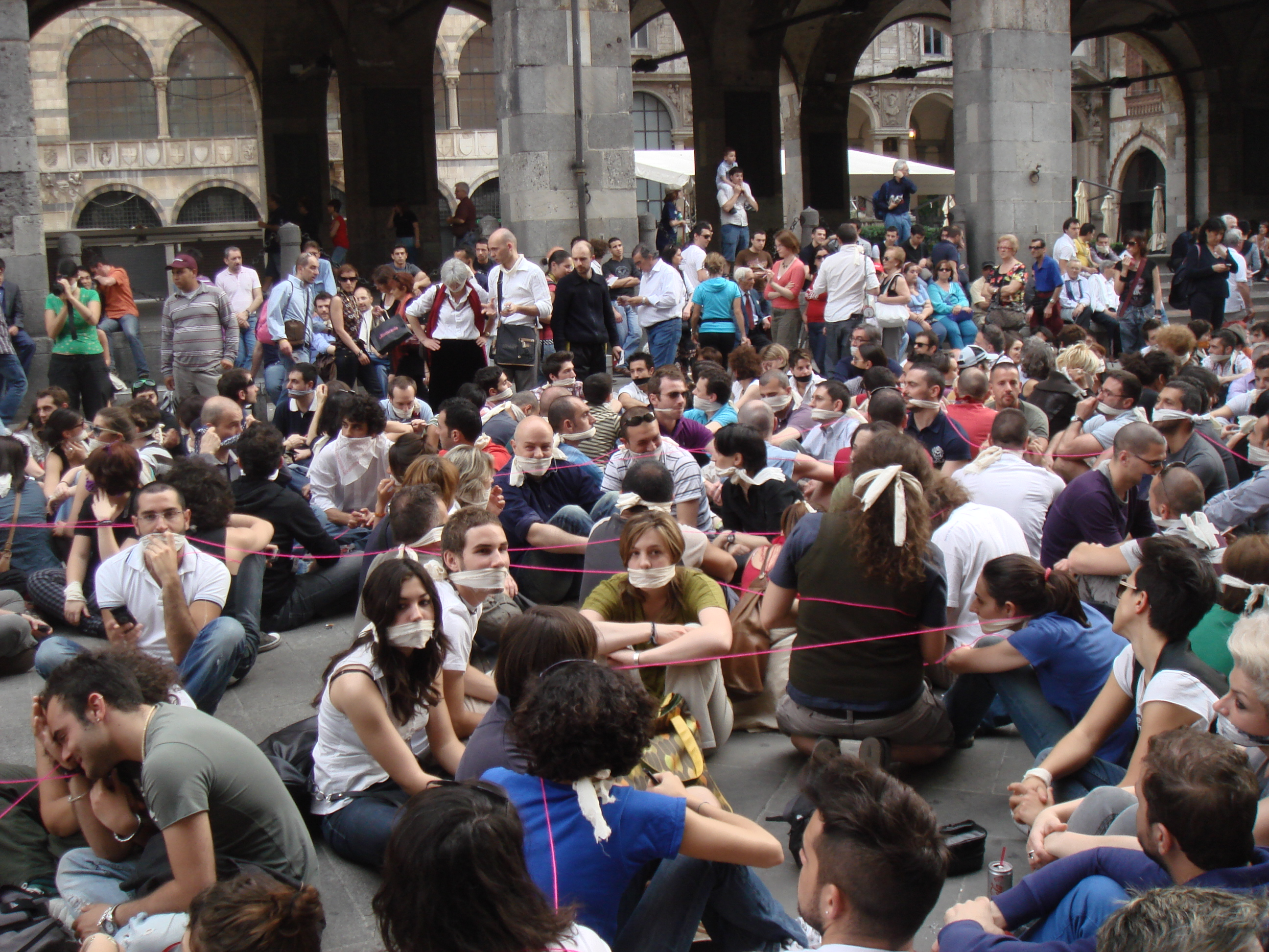 Sit-in against homophobia - , Milan, Italy, May 14, 2009 .